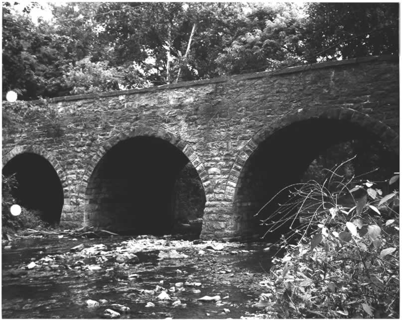 Side of the Bridge in Newport Borough, which carries Legislative Route 31 over Little Buffalo Creek in Newport and Oliver Township, Perry County, Pennsylvania, United States. Built in 1929, the bridge is listed on the National Register of Historic Places.